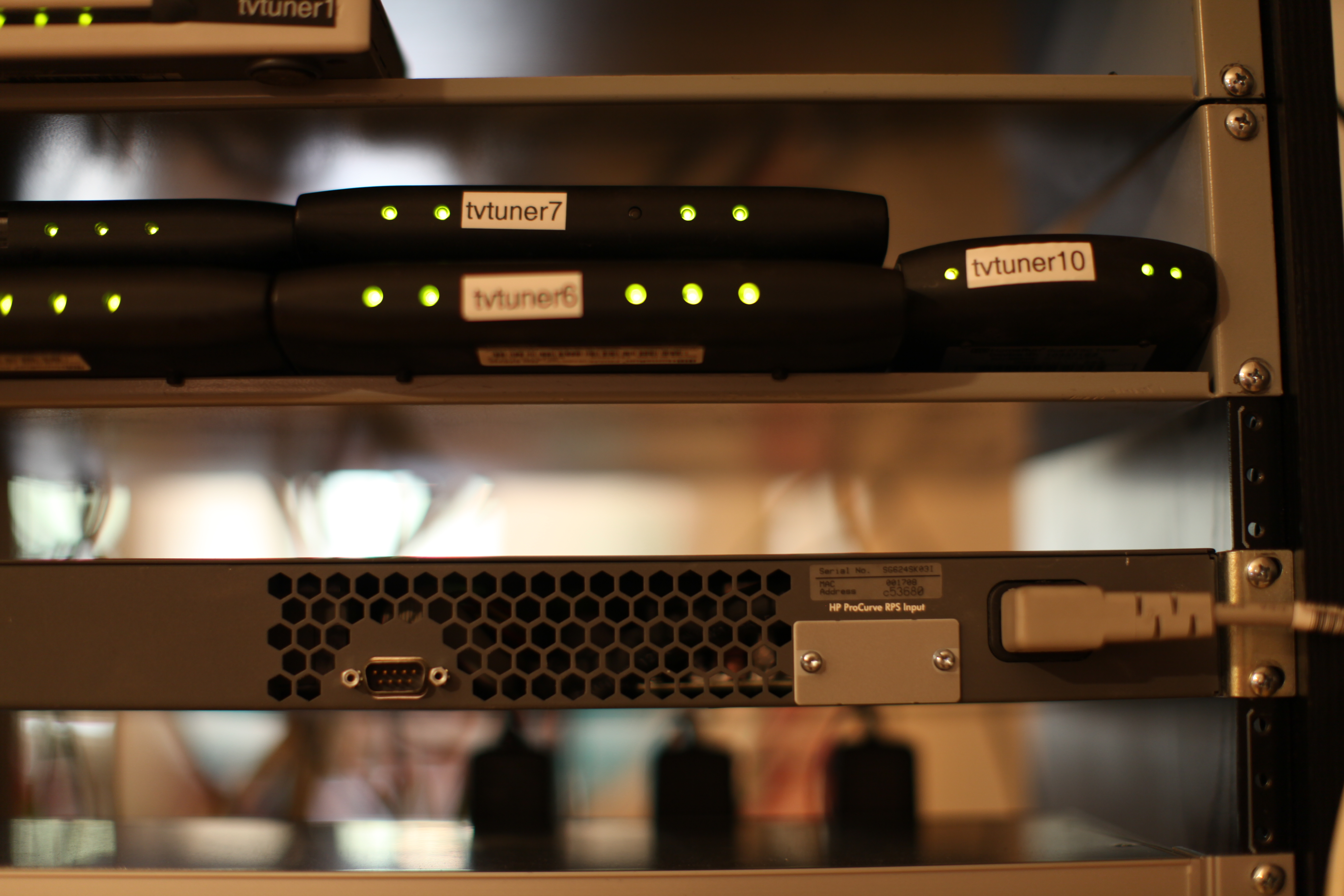 IMG_5091 TV tuners at the Internet Archive